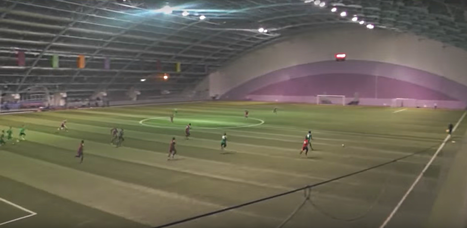 Football Manege in Minsk. Belarus (U-18) v FC Gomel. 13.12.2014